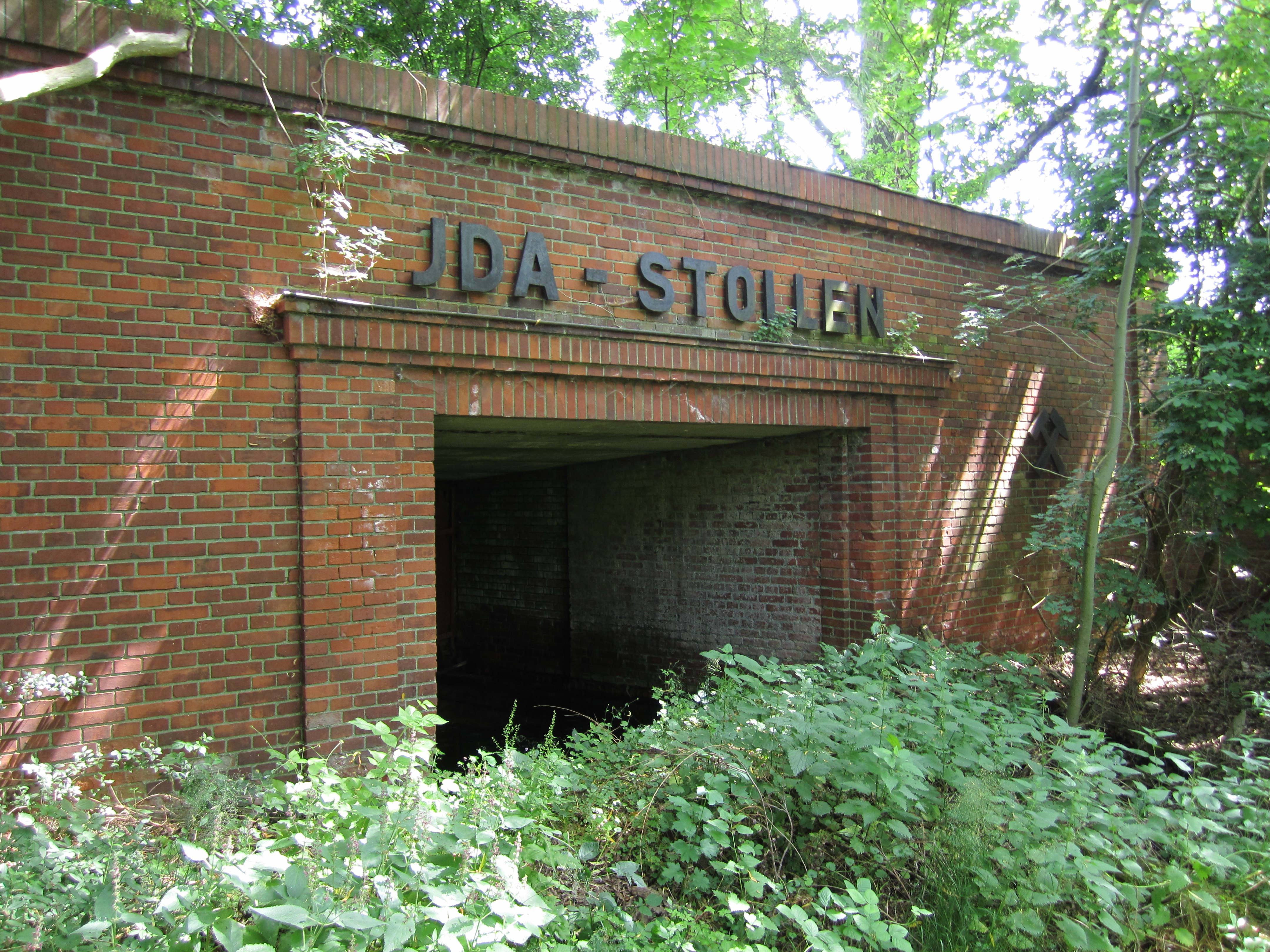 Adit of Ida-Stollen, Iron-ore mining company Ida-Bismarck, near Othfresen, Lower Saxony, Germany